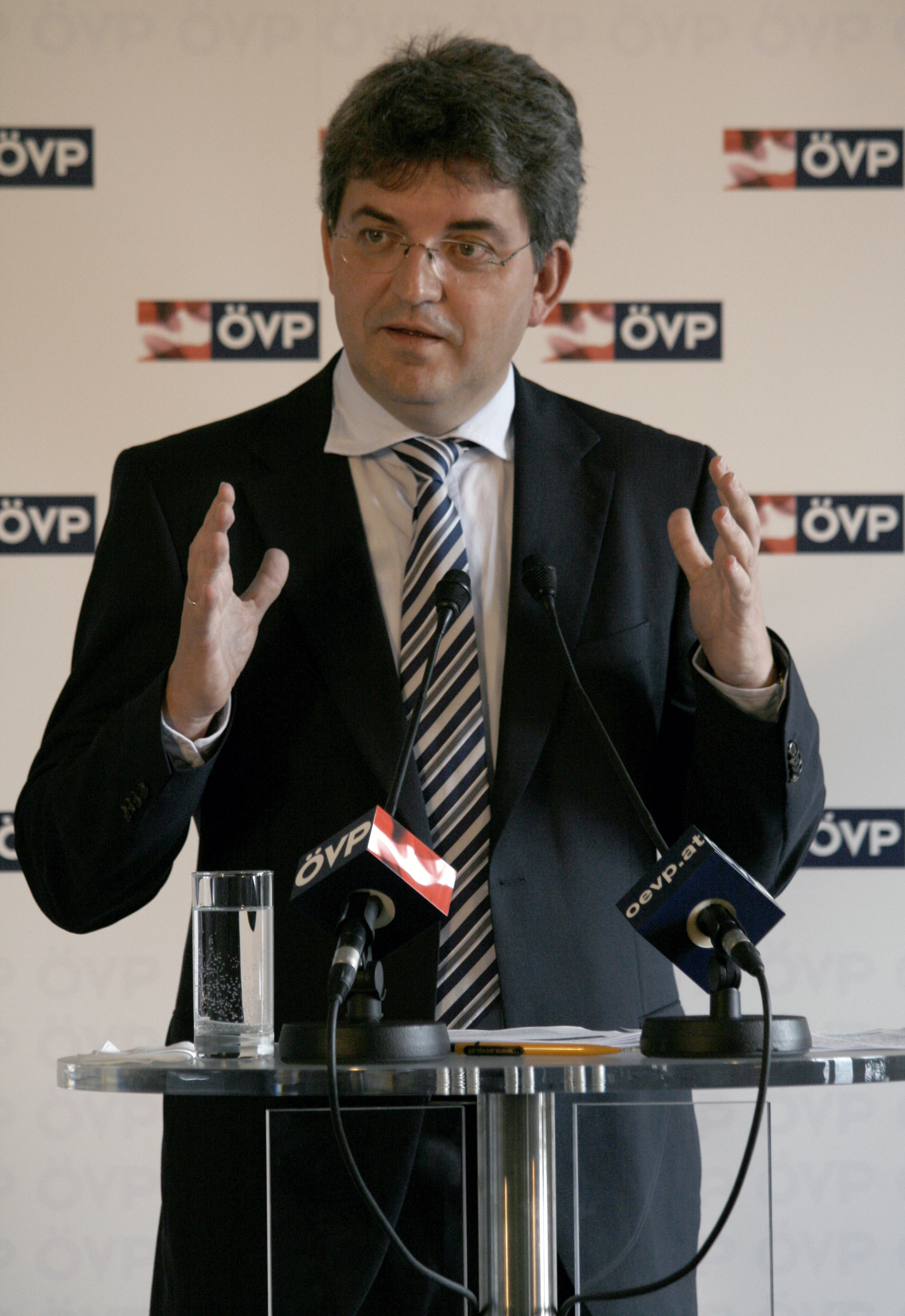 Austrian politician Hannes Missethon at a press conference during the campaign for the legislative election 2008.